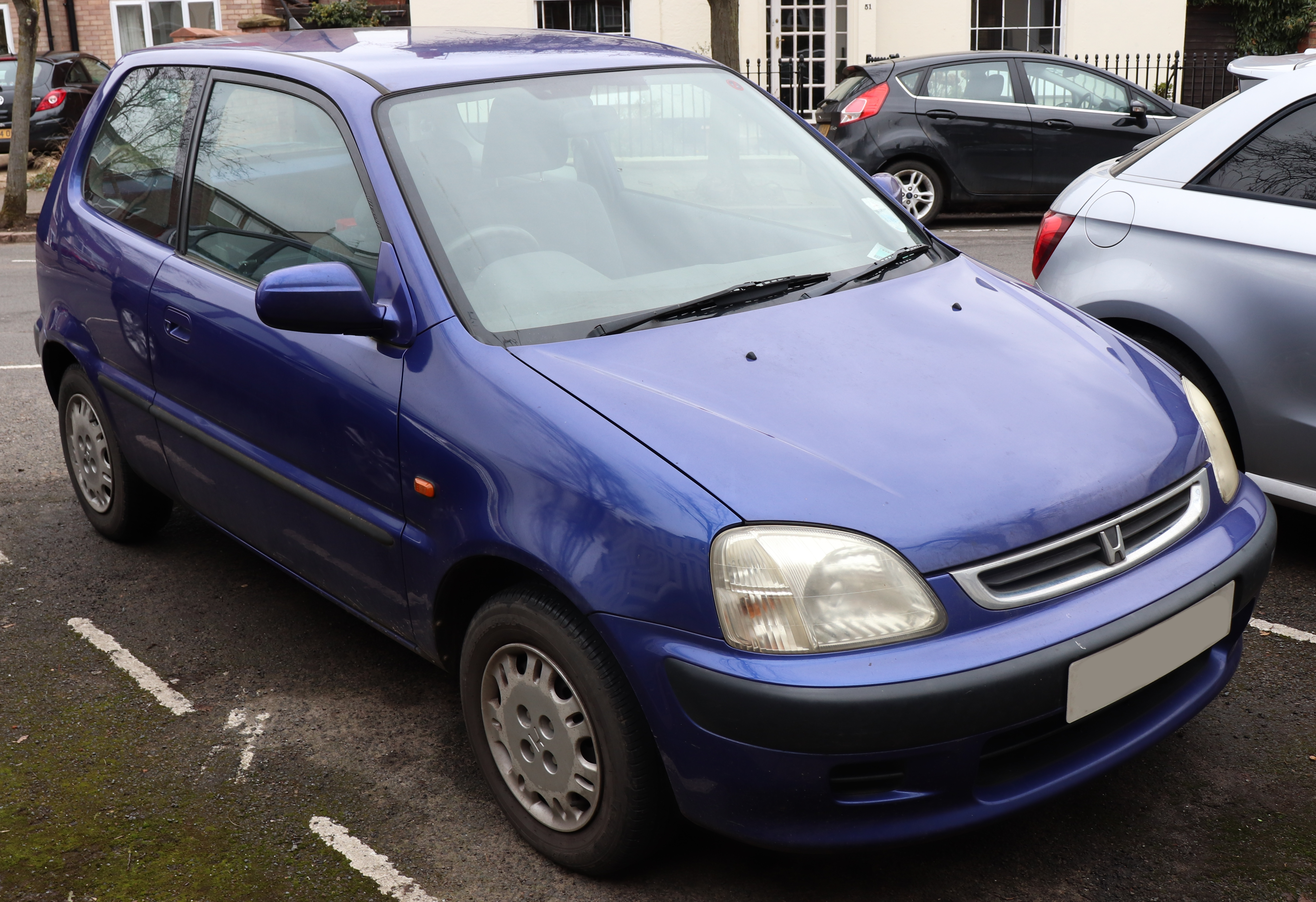 2000 Honda Logo 1.3 Front Taken in Leamington Spa